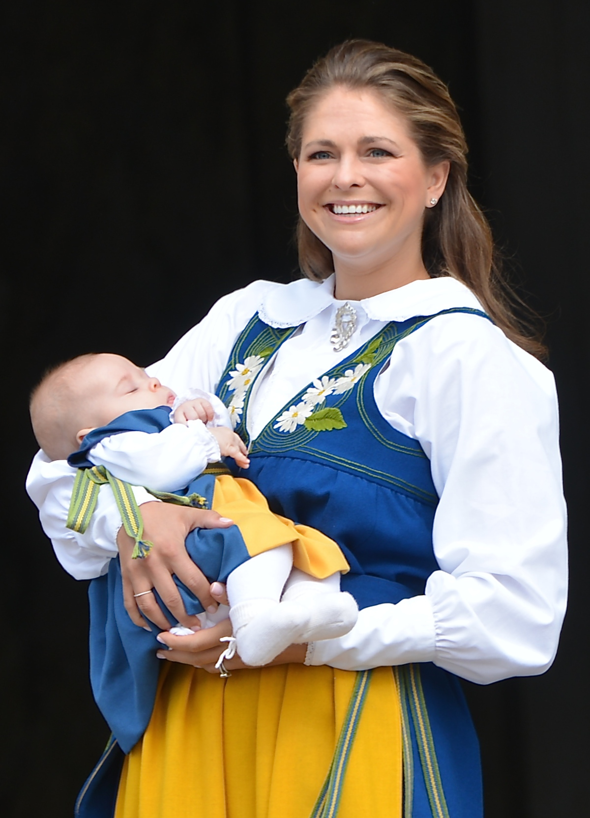 Princess Leonore and Princess Madeleine on Sweden´s National Day 2014.